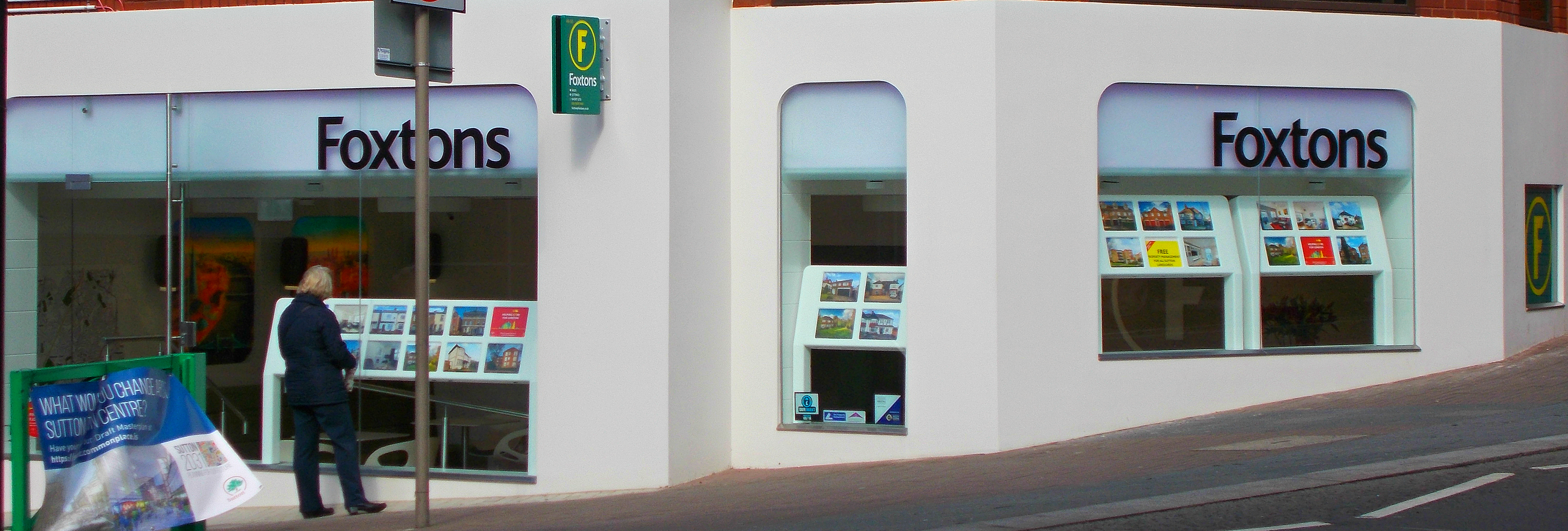 Sutton is 10 miles from central London